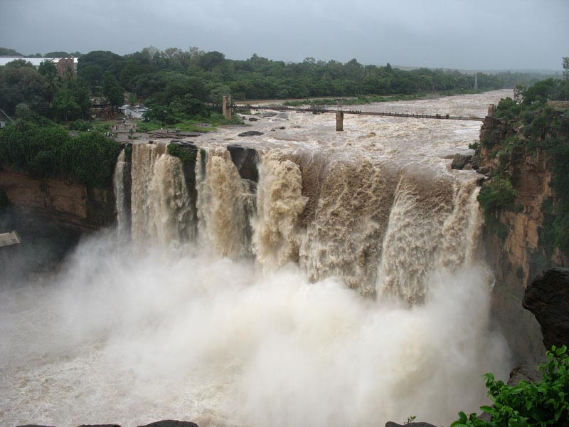 shishir kakaraddi